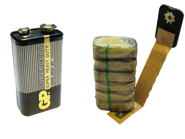 An intact Gold Peak 9V zinc-carbon 9V battery next to the internal components of the same (or similar) kind of battery. The 6 stacked flat zinc-carbon cells can be seen.